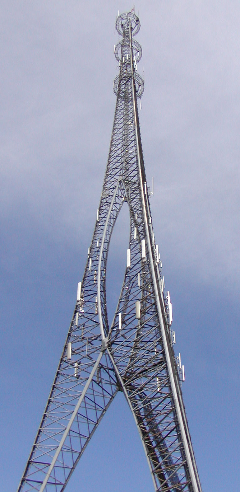 TeleCourier tower in Bloomington, Illinois: 520 N. Center St. (Business Route U.S. 51) just south of Locust St. (U.S. Route 150/Illinois Route 9). Height: 127.4 meters (418 ft)